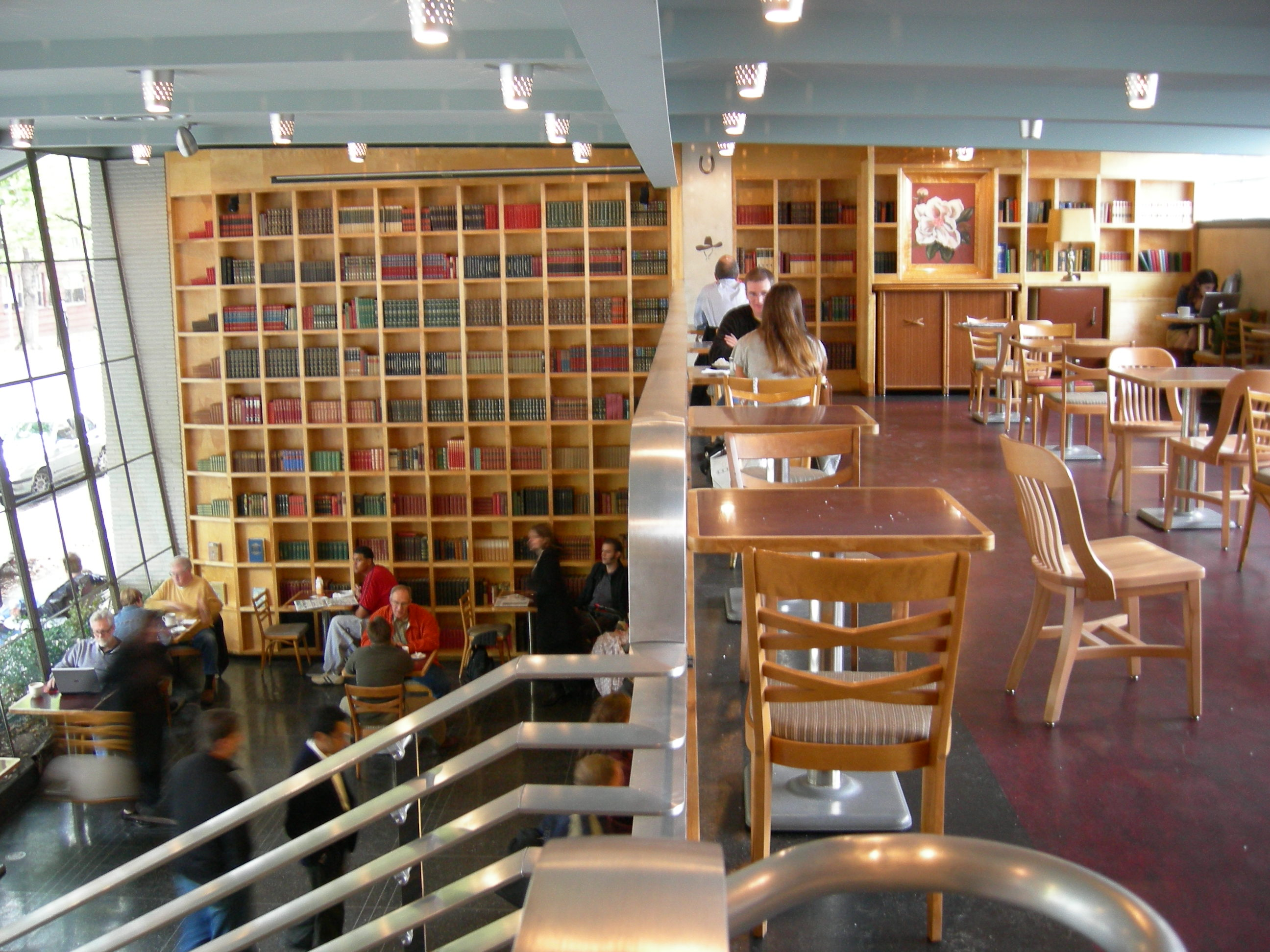 Top Pot (Donut shop / coffeehouse) on Fifth Avenue in Belltown (the north part of downtown), Seattle, Washington. The building was previously the office of an architecture firm.